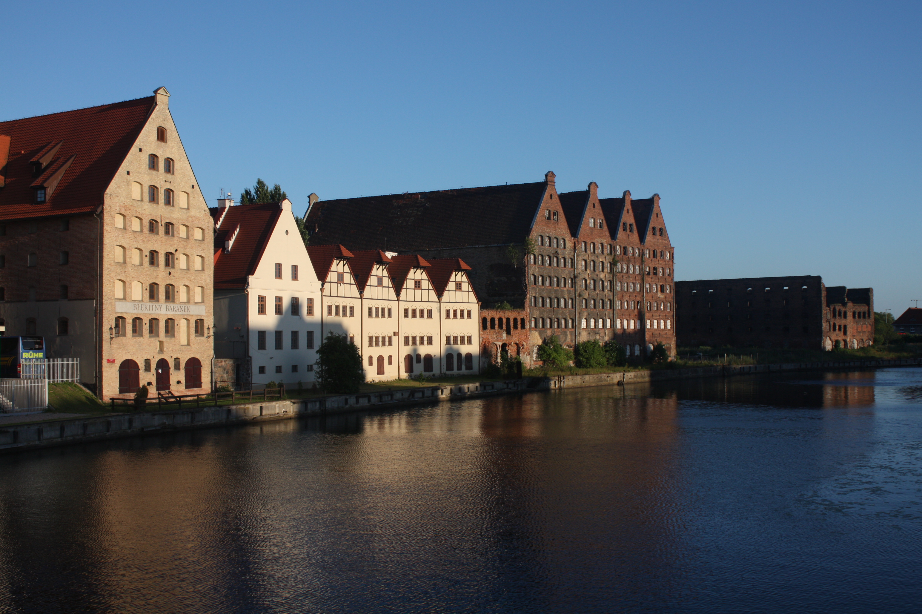 Gdańsk, Granary's Island